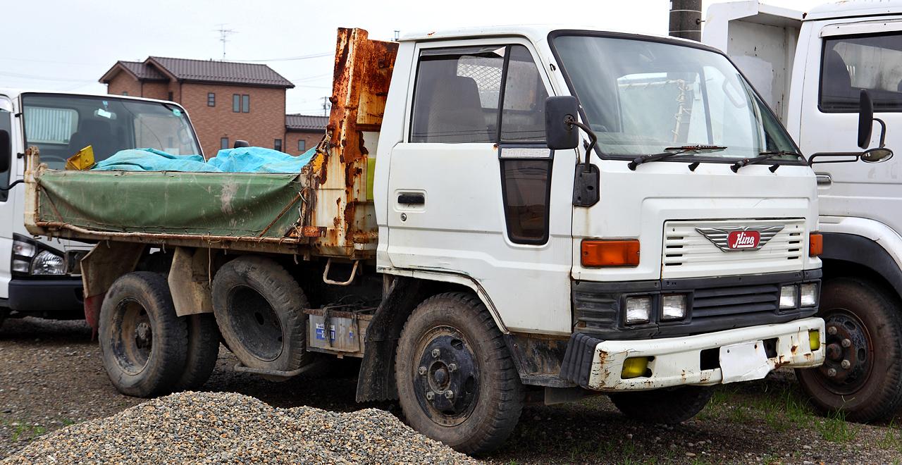 Second generation Hino Ranger2 Dump truck.